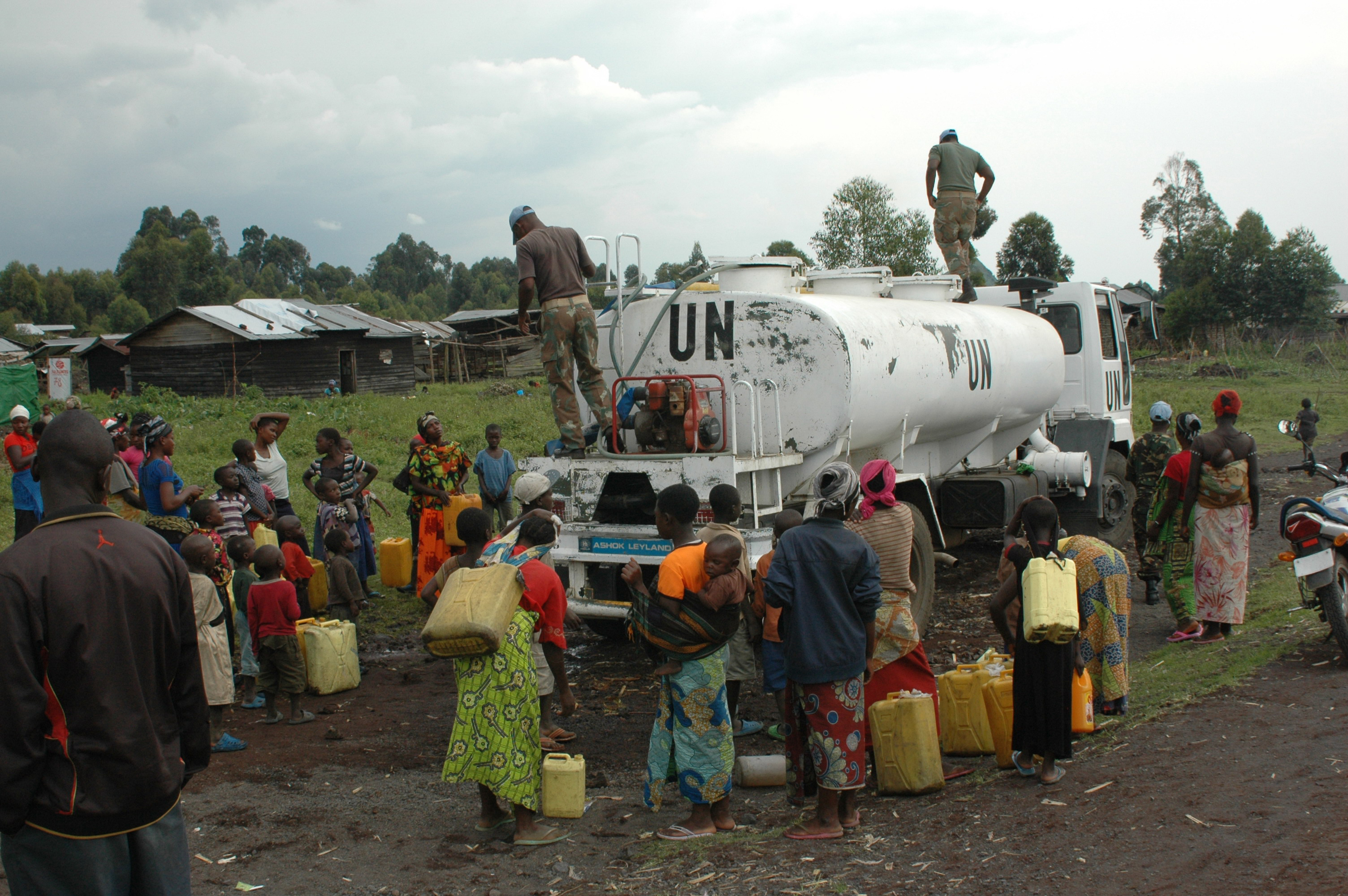 MONUSCO peacekeepers distributing drinking water to the population of the previously rebel-held locality of Rumangabo, 50 kilometers from Goma, North Kivu. The Armed Forces of the Democratic Republic of Congo (FARDC), supported by the MONUSCO Intervention Brigade, regained control over Rumangabo after dislodging M23 rebels from the locality on 28 October 2013.